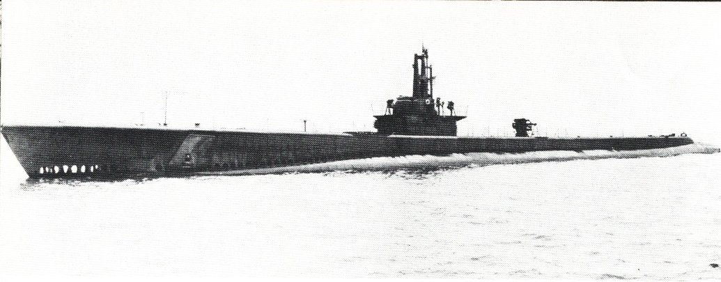 USS_Becuna; Becuna (SS-319), after commissioning in May 1944. USN Archives photo # USN-189867. Courtesy of The Floating Drydock, Fleet Subs of WW II, by Thomas F. Walkowiak.